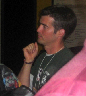 Jason Jones, one of the founding members of game developer Bungie and project lead for Halo and Halo 2, at E3 2006.